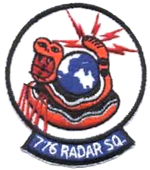 Emblem of the 776th Radar Squadron